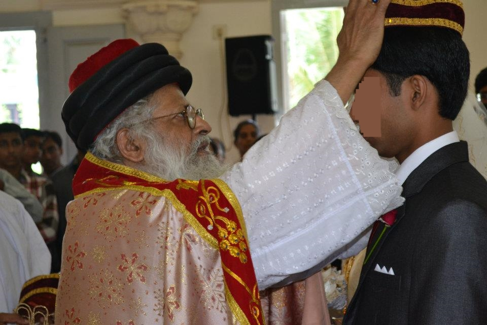 Crowning ceremony during marriage in Chaldean Syrian Church